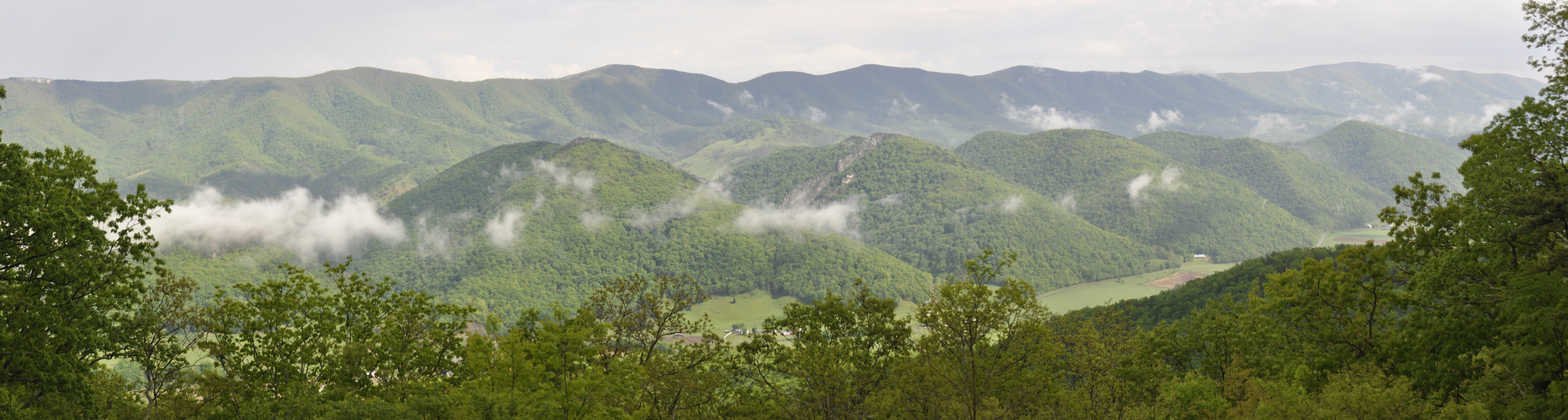 River Knobs with Nelson Rocks in the center, Pendleton County, West Virginia.